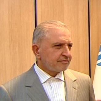 Abdollah Jassbi, Former President of Islamic Azad University of Iran.